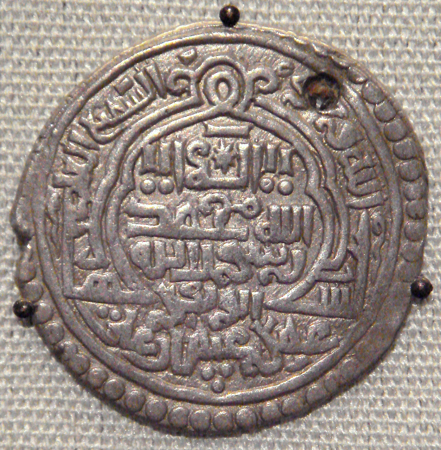 Mongol_coin_minted_at_Jarjim_Iran_1319